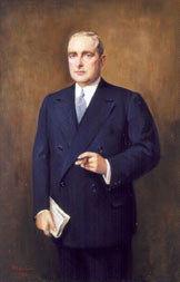 Portrait of Ogden L. Mills by Pilides Costa